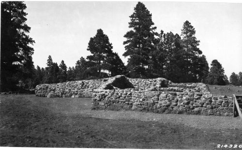 1926—Eldin Ruins, a prehistoric Indian village adjacent to Flagstaff. The remnants of walls had been stabilized and steps installed to facilitate visitation. Archeological studies continued through recent times. Photo by L. D. Lemley FS #214320